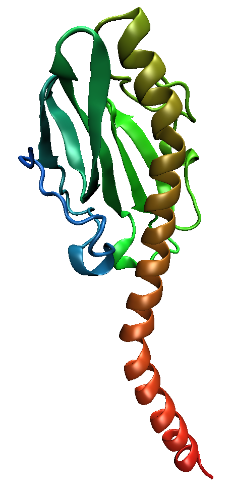 Structure of the Neisseria gonorrhoeae pilin protein that oligomerizes to form cell-adhesion pili and is an important component of bacterial pathogenesis. Illustrates the long N-terminal alpha helix characteristic of the pilin protein fold.